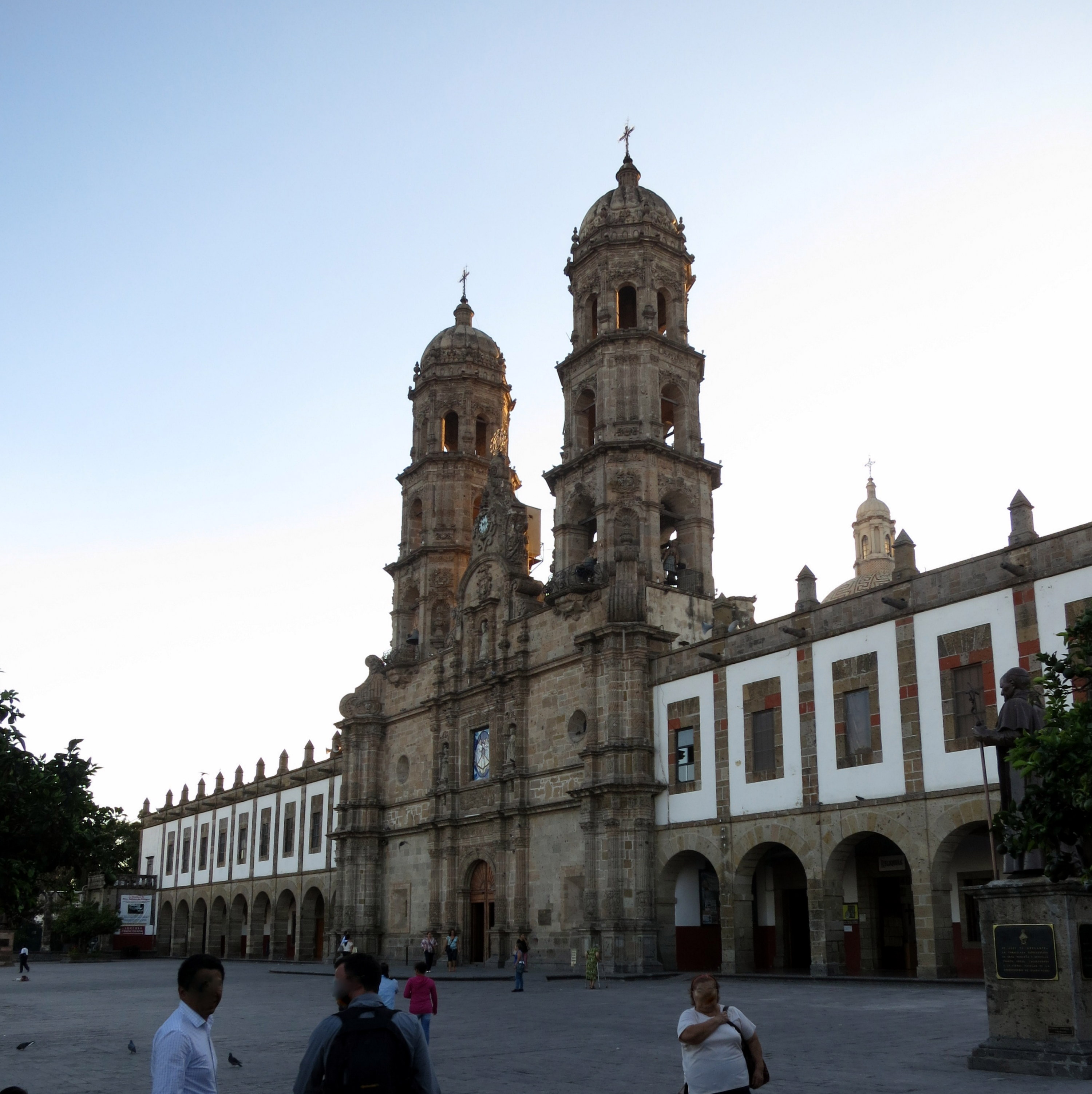 Basílica de Nuestra Señora de Zapopan (Zapopan, Jalisco) - exterior and plaza